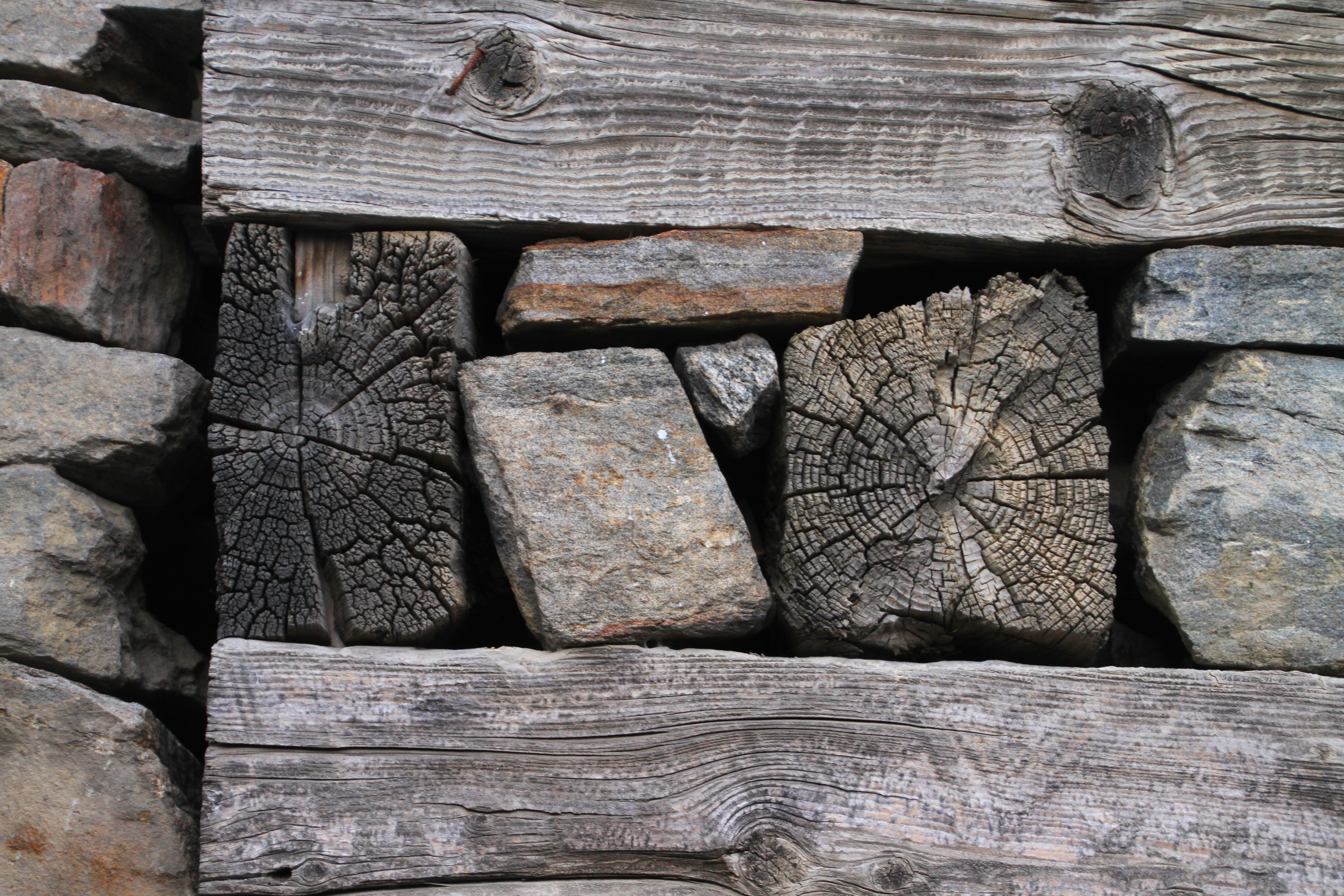 Kalpa in Himachal Pradesh in India.